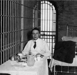 Henry Kendall Thaw in jail after murder of Stanford White. Thaw in jail cell dining on meal catered by Delmonico's